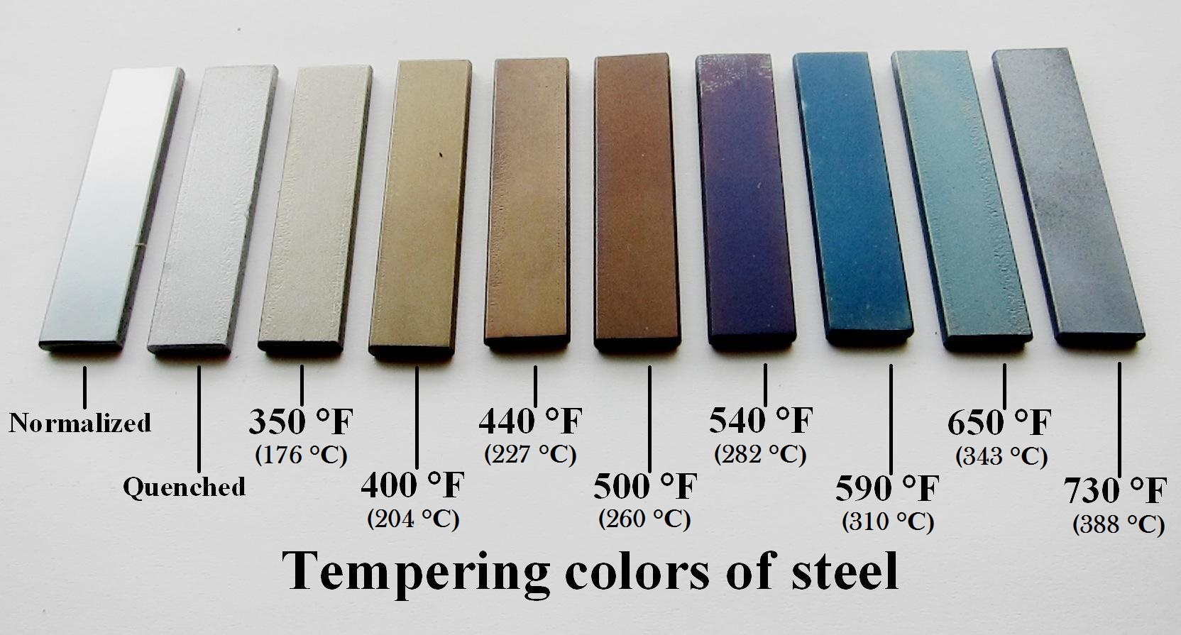 These "tempering standards" were cut from the same stock of carbon-steel flatbar. They measure 1/2" wide by 2" long. The one on the left has been normalized and sandblasted, to provide a diffuse surface, (for better photographing). The piece second-from-the-left is untempered quenched-steel, also sandblasted to remove any oxidation. The rest have also been quenched and sandblasted, but then tempered in an electric oven to their corresponding temperature, for around an hour each to thoroughly "soak" the metal in the heat. Tempering standards are often used by blacksmiths, to compare to work being tempered, ensuring that the work is tempered to the right temperature. (Tempering colors may appear different in different forms of lighting, or at different angles. For instance, to get good color-rendering, these needed to be photographed in the diffuse, continuous-spectrum light of a cloudy day.)